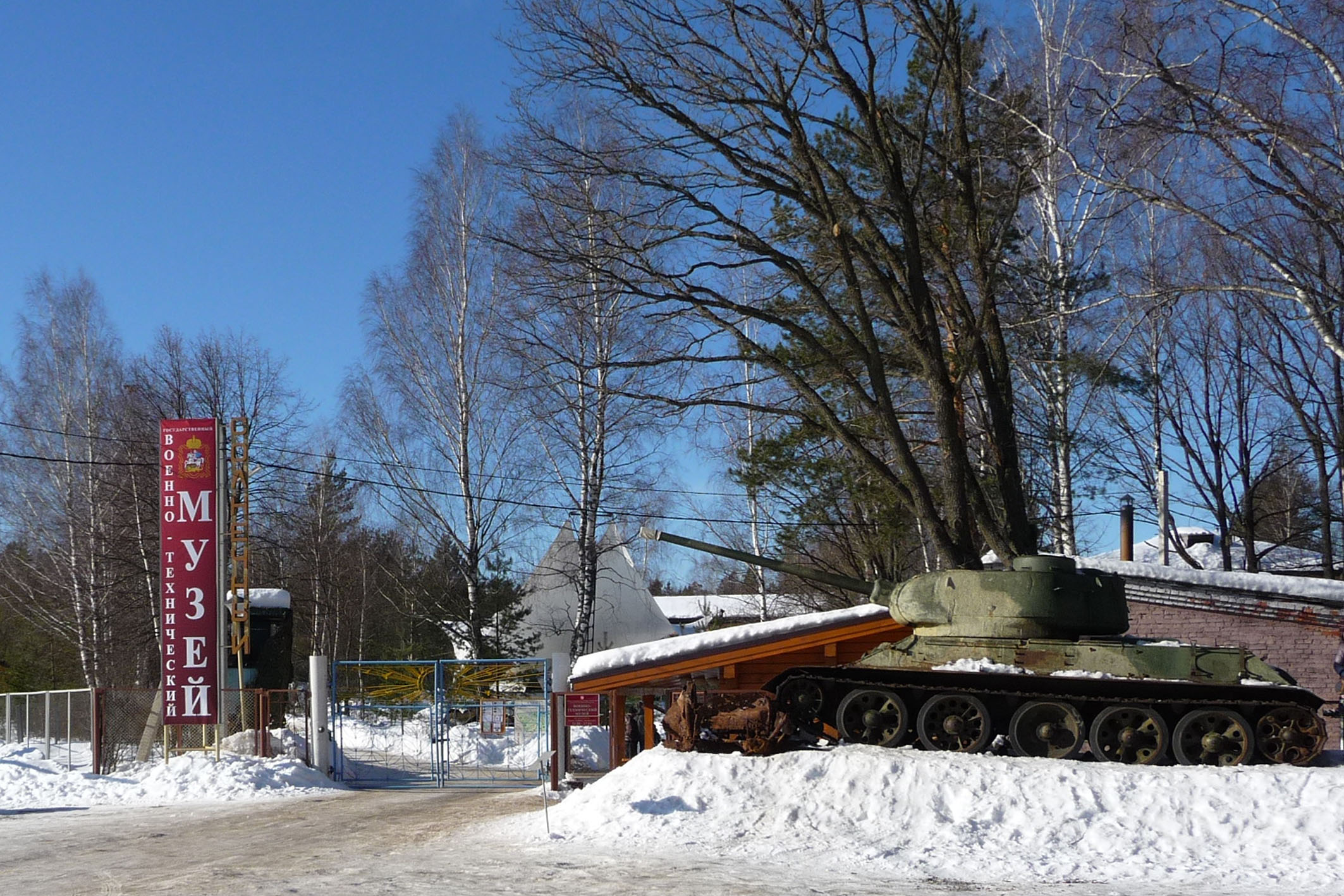 The State Military-Technical Museum in the village of Ivanovskoe, Chernogolovka, Moscow region.